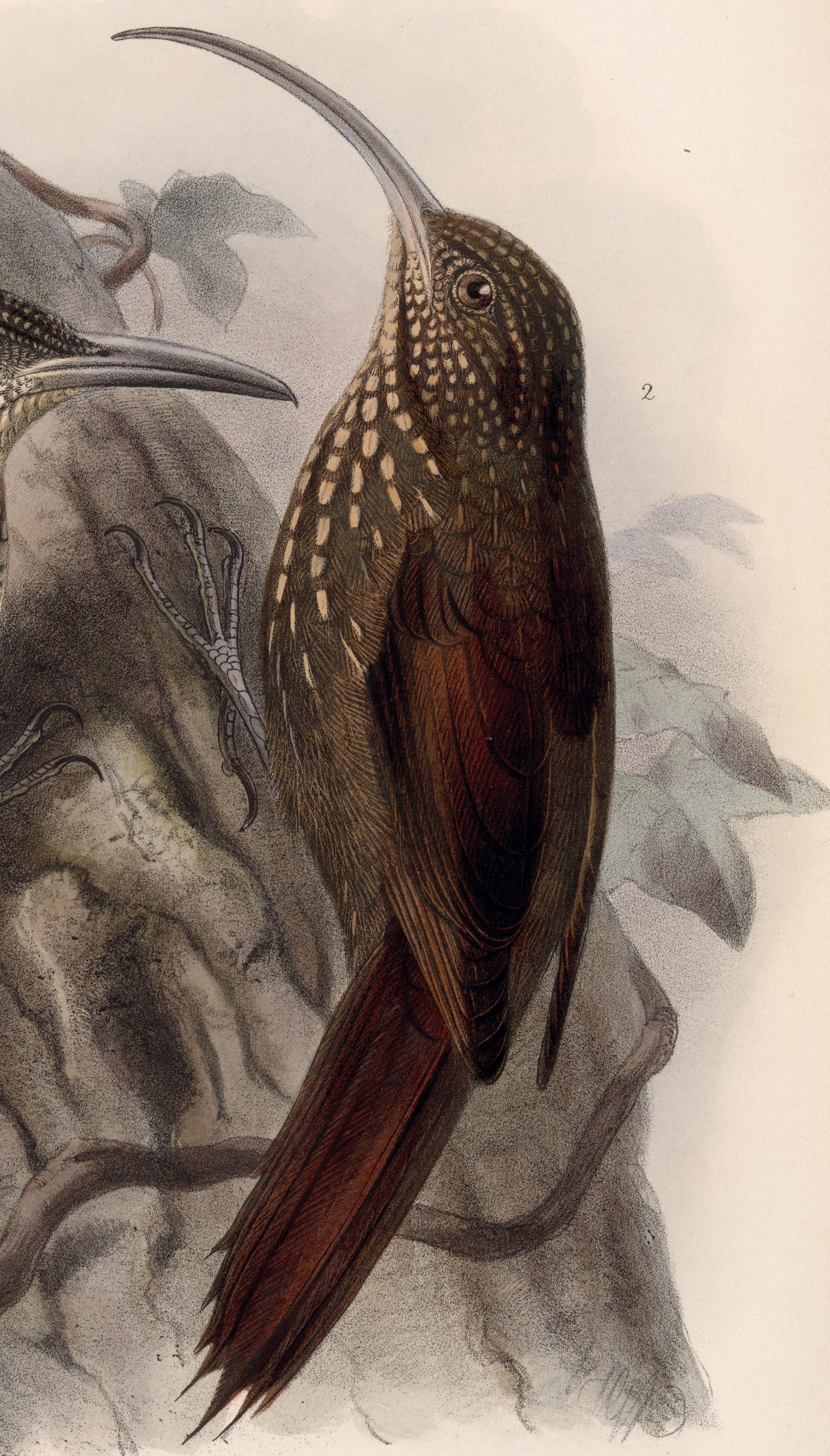 « Xiphorhynchus pusillus » = Campylorhamphus pusillus (Brown-billed Scythebill)